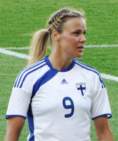 Laura Österberg Kalmari during Finland - Northern Ireland friendly match.